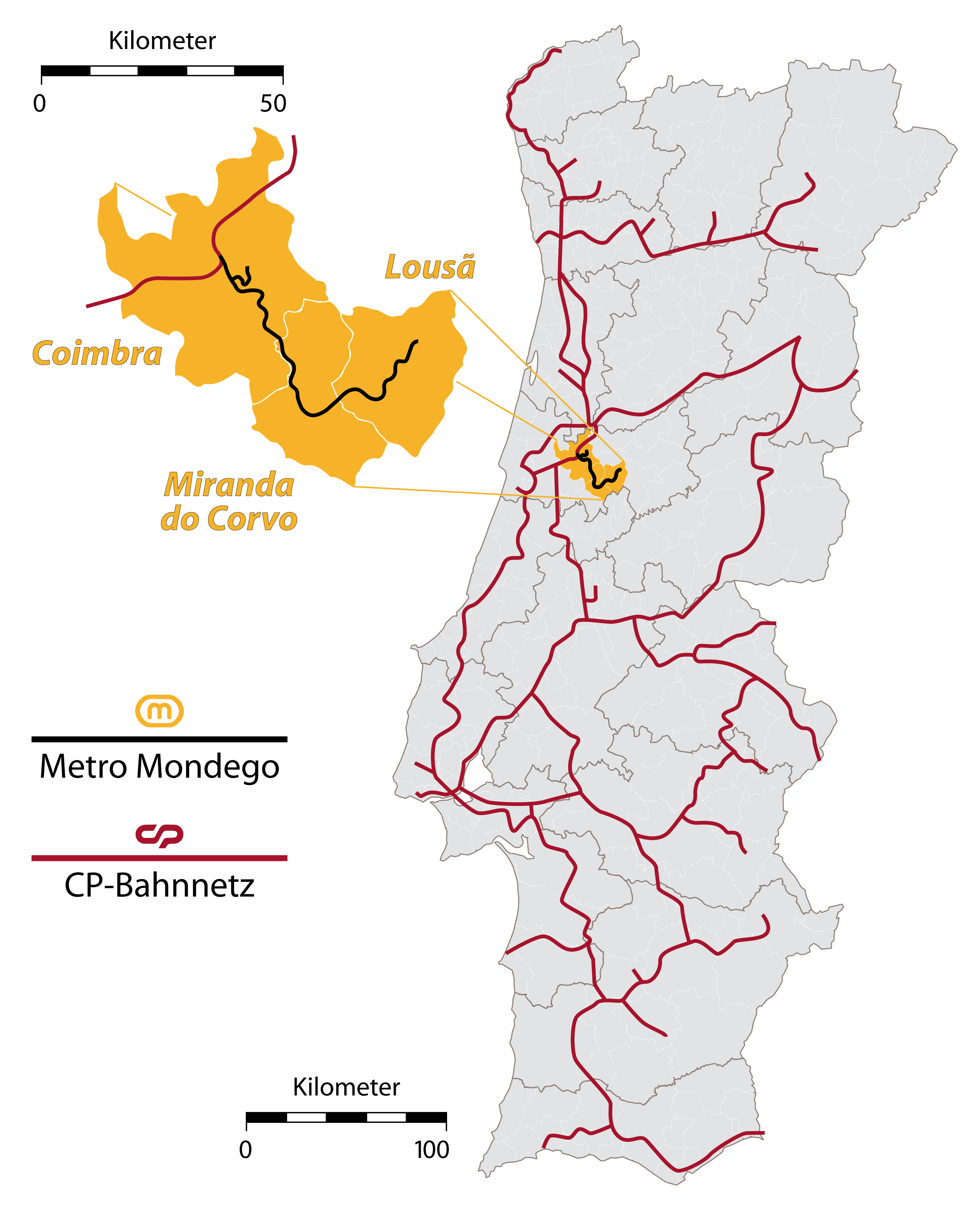 Locator Map for the Metro Mondego